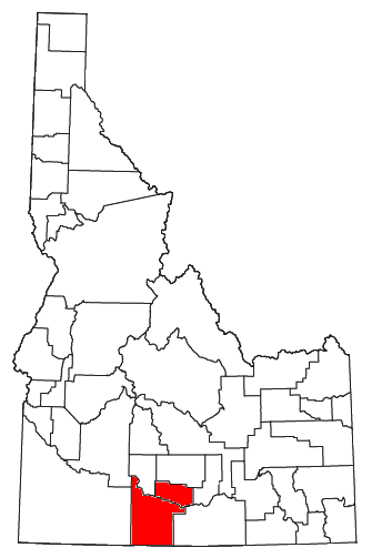 Locator map of the Twin Falls Micropolitan Statistical Area in the southern part of the U.S. state of Idaho.